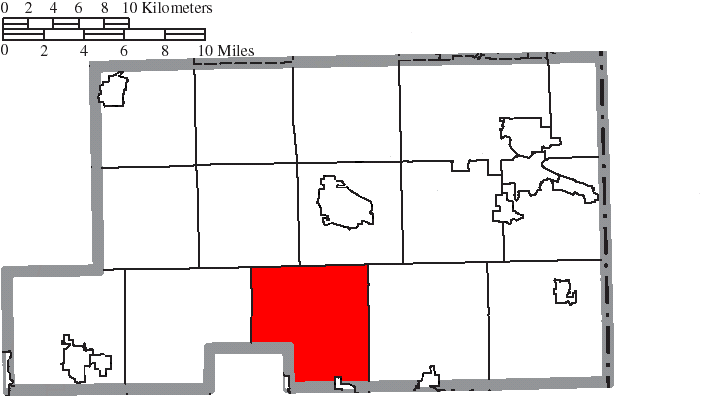 Map of the municipal and township boundaries of Mahoning County, Ohio, United States, as of the 2000 census, with the location of Green Township highlighted. Township borders are shown only in unincorporated areas in order to differentiate incorporated and unincorporated areas more clearly.